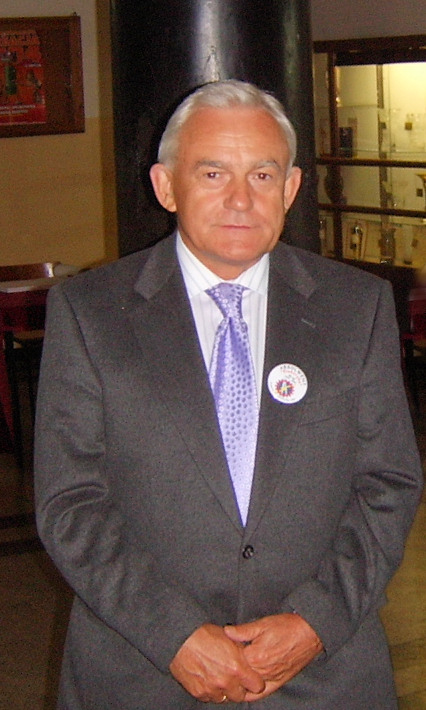 Leszek Miller in polish school 15.10.2005